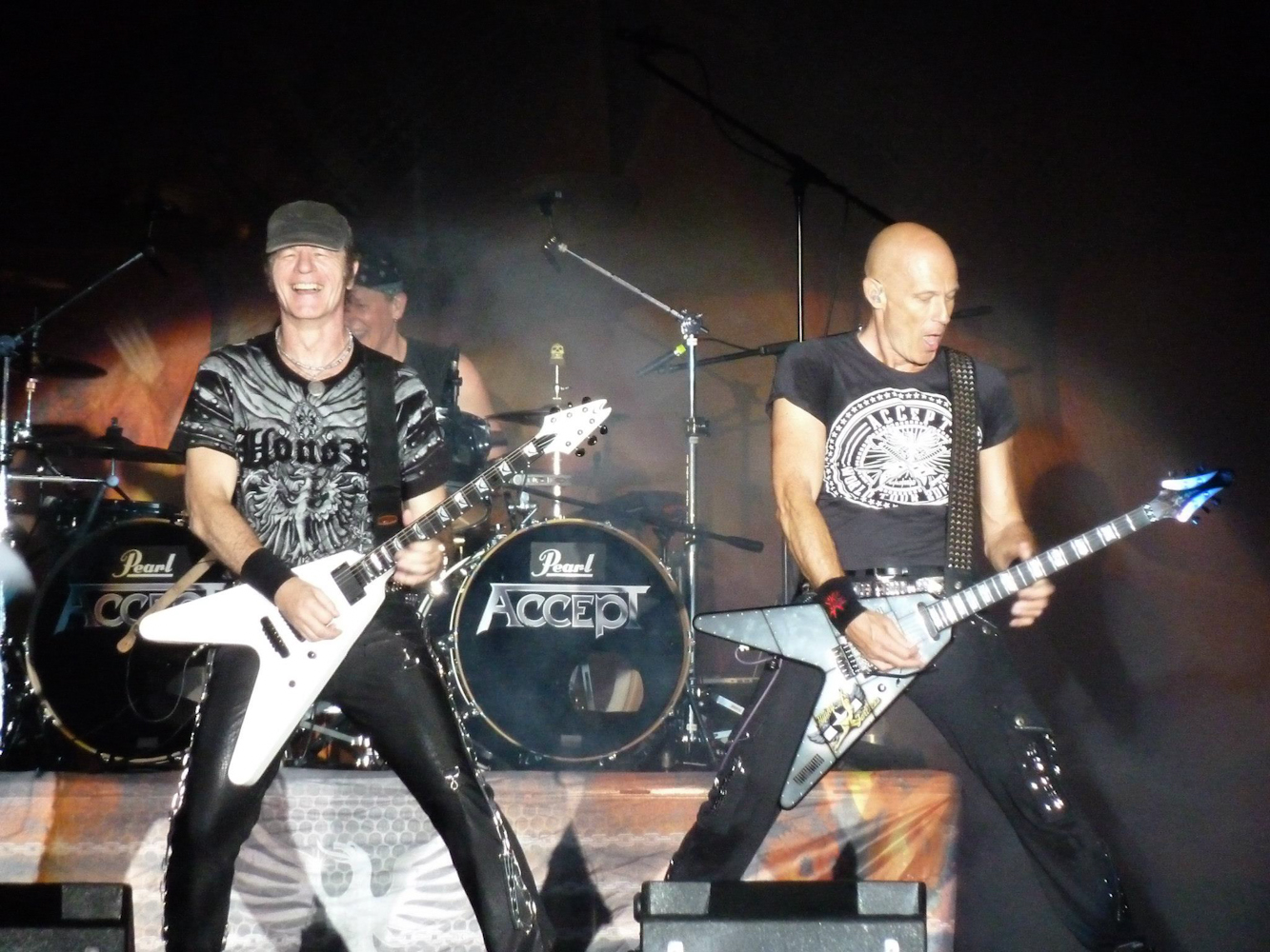 Herman Frank and Wolf Hoffmann, guitarists of the German heavy metal band Accept performing at Kavarna Rock Fest 2013, Bulgaria.